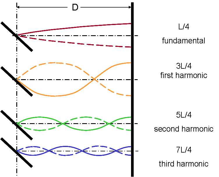 First 4 harmonics at the surface of a wedge-shaped water body. The node at the left end is due to the existence of a phase jump at the sloping end, whereas there is an antinode (loop) at the vertical wall.